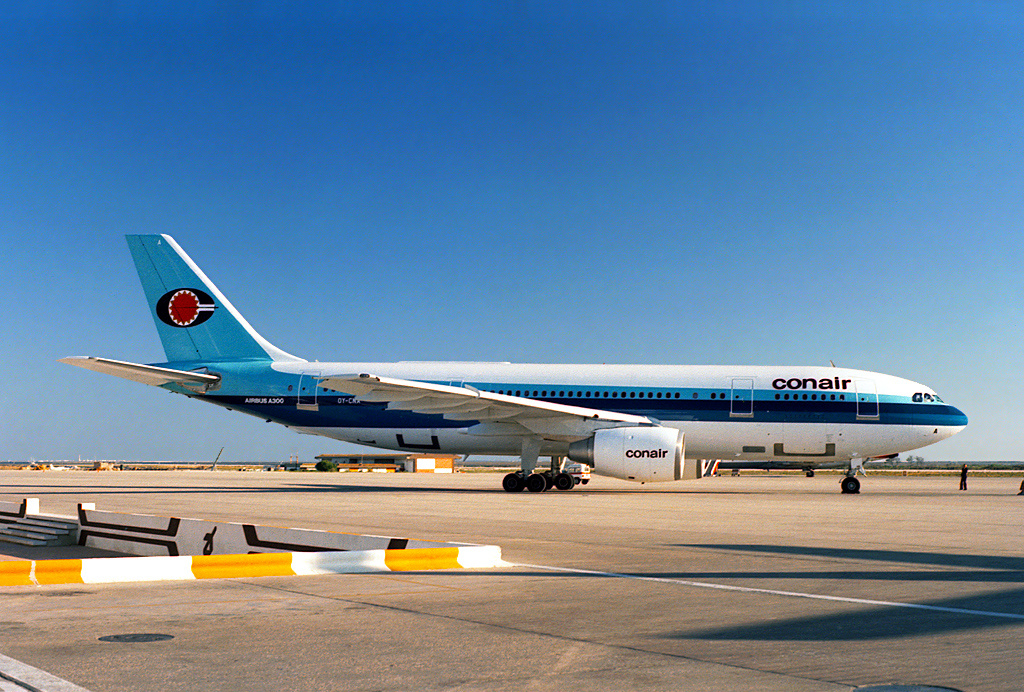 Conair of Scandinavia Airbus A300B4-120 OY-CNA at Faro Airport